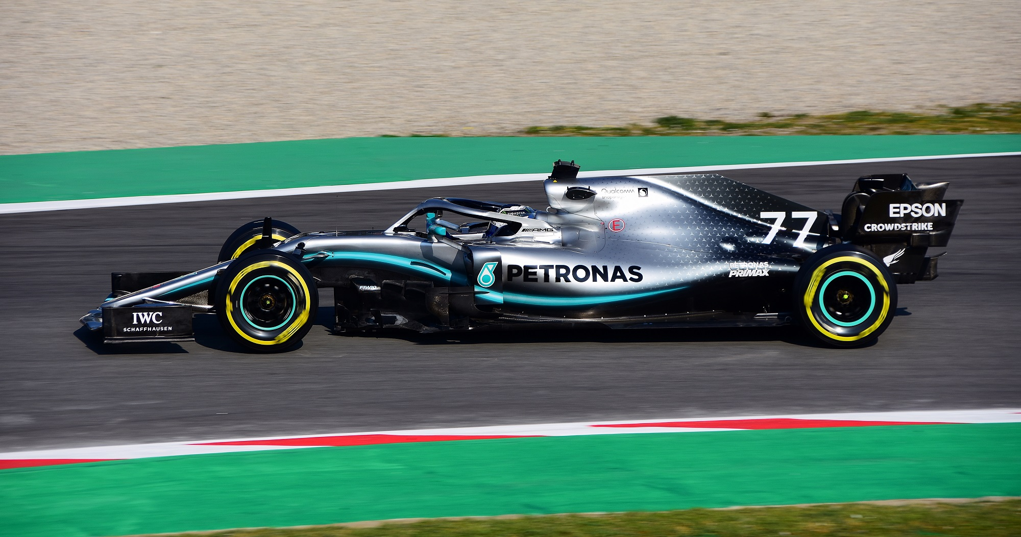 2019 Formula One Test Days / Circuit de Barcelona / Mercedes AMG F1 W10 EQ Power+ / Valtteri Bottas / Mercedes-AMG Petronas Motorsport